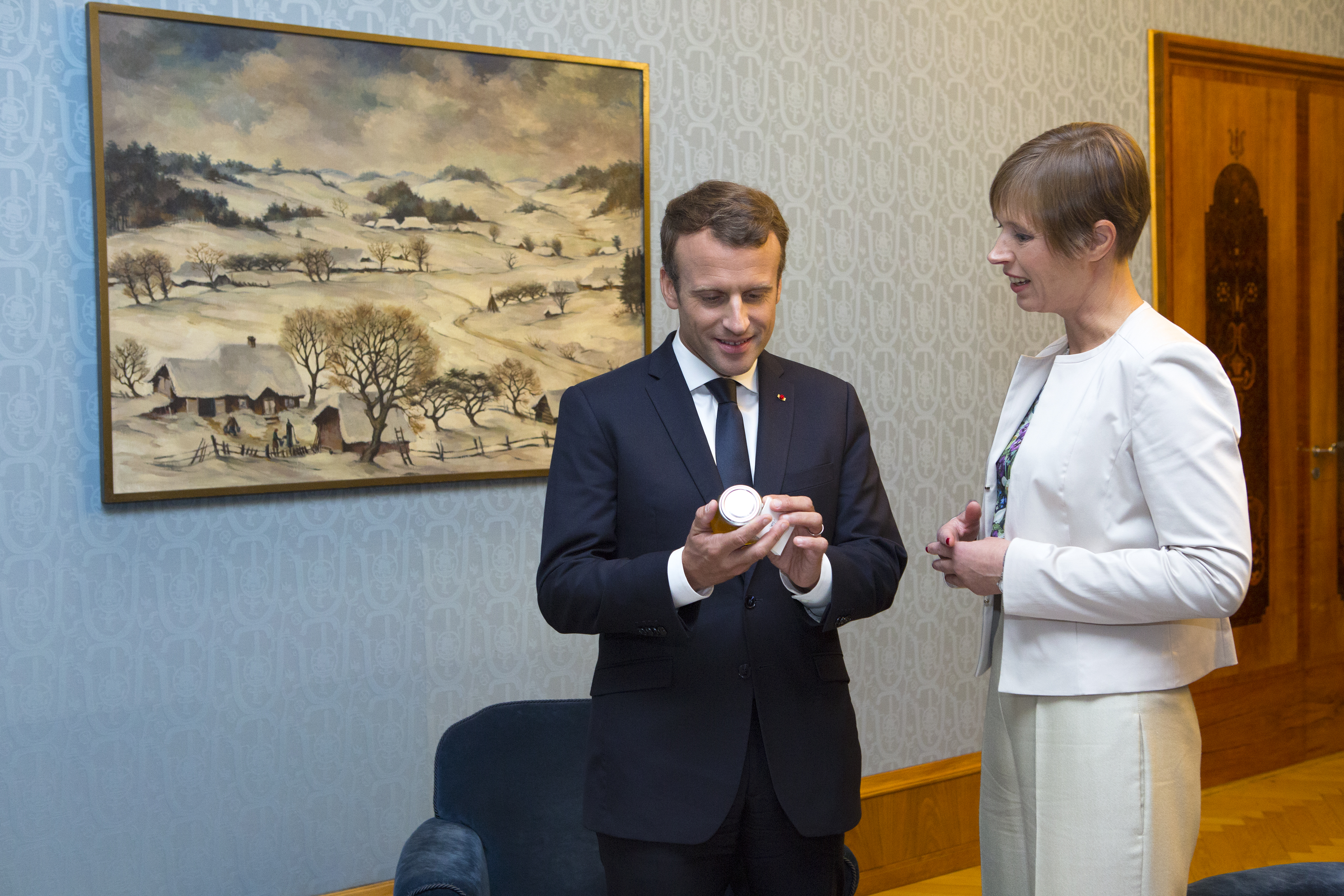 (l-r) Emmanuel Macron, the President of France; Kersti Kaljulaid, the President of Estonia Photo: Annika Haas (EU2017EE)